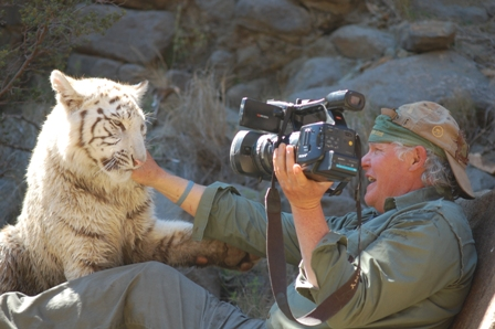 John Varty (JV) and Shine at Tiger Canyons, South Africa